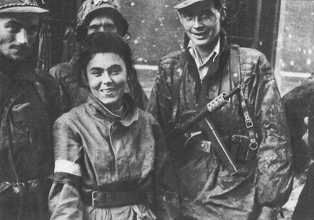 Warsaw Uprising: Soldiers from "Maciek" Company of "Zośka" Battalion part of "Radosław" Regiment after several hour sewer march from placu Krasińskich to Warecka street in Śródmieście district, early morning on September 2, 1944.